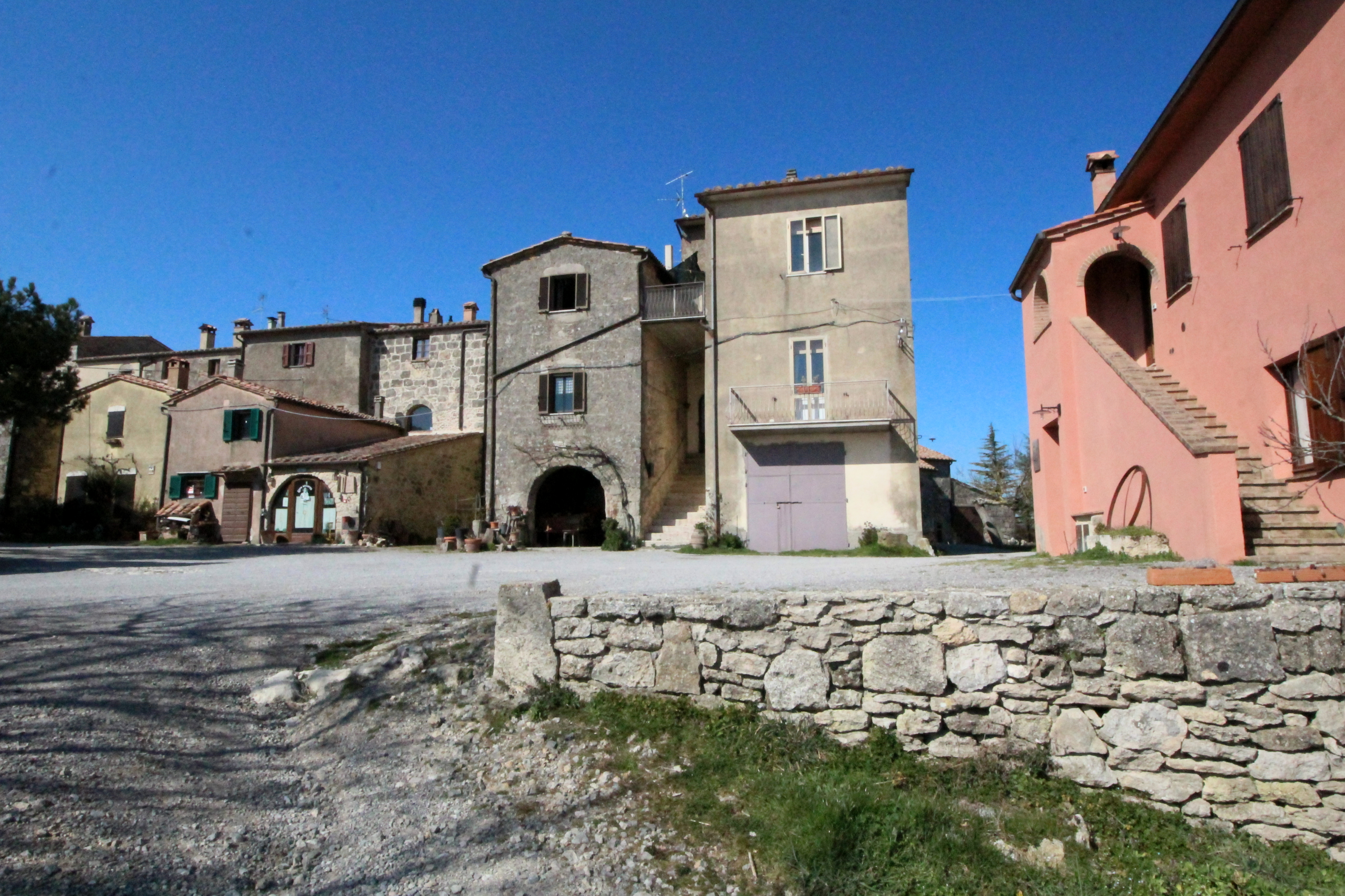 Fonte Vetriana, village in the territory of Sarteano, Province of Siena, Tuscany, Italy